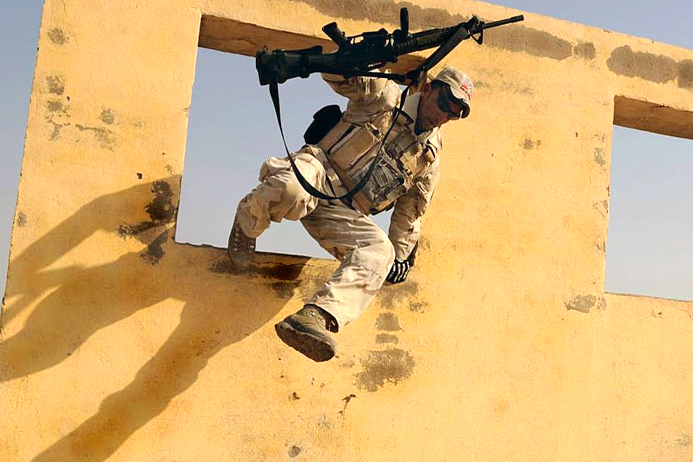 An Iraqi soldier clears an obstacle as he works his way toward a simulated casualty during medical training with U.S. Army Special Forces soldiers on Camp Diwaniyah, Iraq, Dec. 1, 2008. The Iraqi soldiers ran the obstacle course before evaluating their casualty in order to test their performance under stressful conditions.